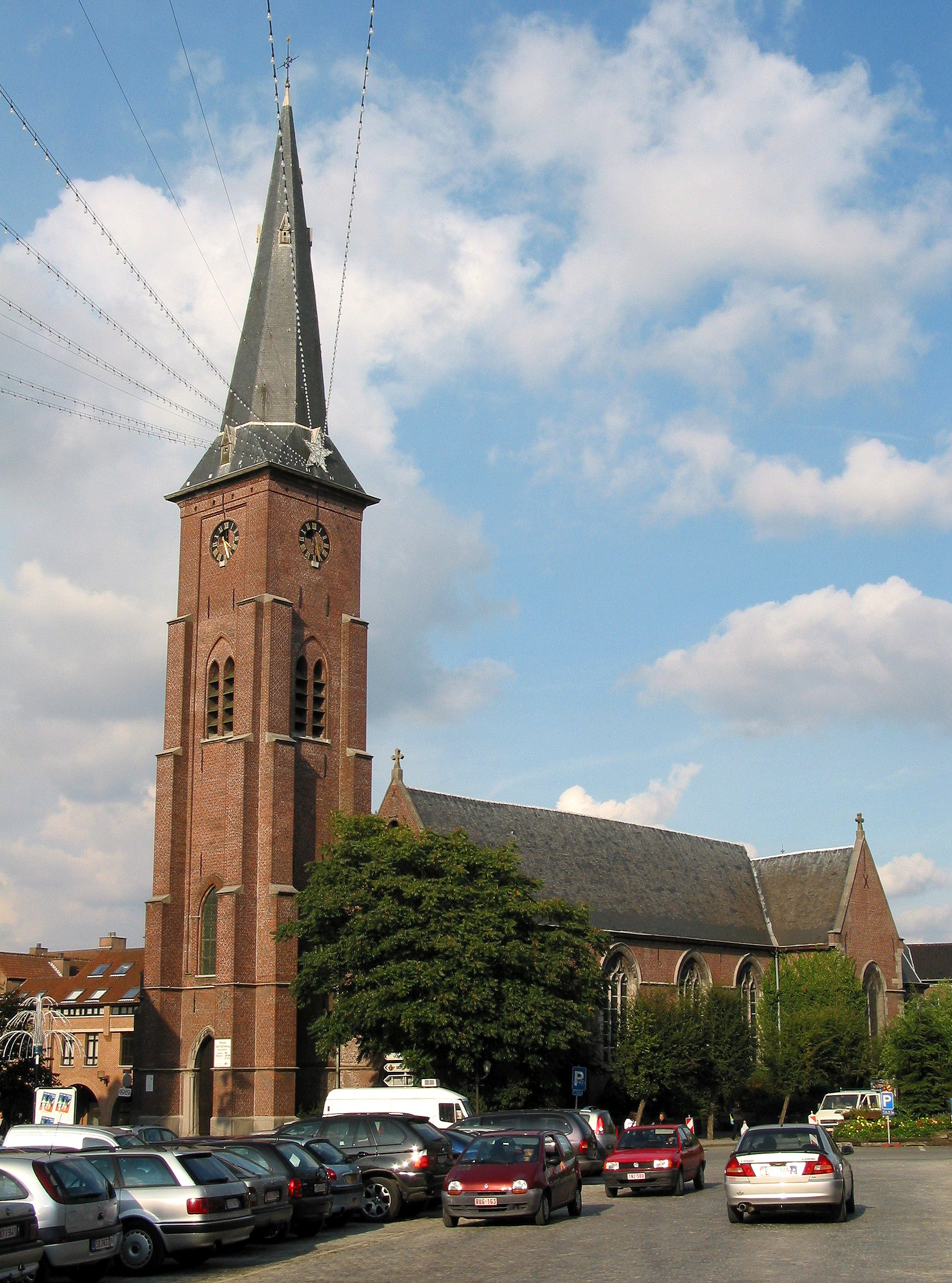 Mouscron (Belgium), the Saint Bartholomew's church (XV/XVIth centuries).